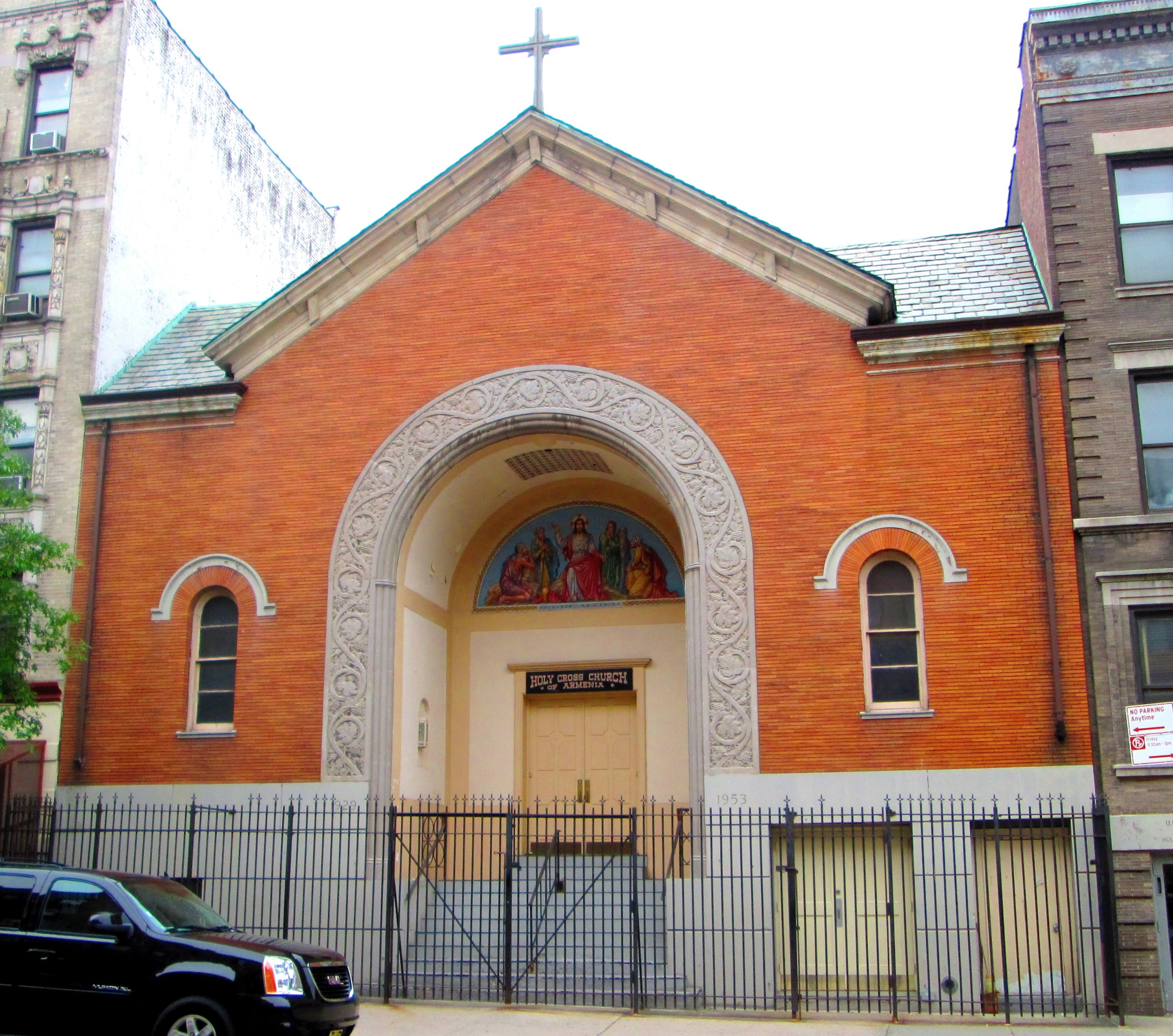 The Holy Cross Armenian Apostolic Church — an Armenian church located at 580 West 187th Street between St. Nicholas and Audubon Avenues in the Washington Heights neighborhood of Manhattan, New York City. It was the site on December 24, 1933 of the assassination by the Armenian Revolutionary Federation of Archbishop Leon Elisee Tourian, the head of the Armenian Church in the United States, which caused a schism. The church, which was originally built for the Lutheran Church of Our Savour, had to be reconsecrated. Tourian was buried in a crypt in the building, which was renovated and refaced in 1952-53 to designs by Manoug Exerjian. The parish was founded in 1929. (Source: From Abyssinian to Zion (2010))